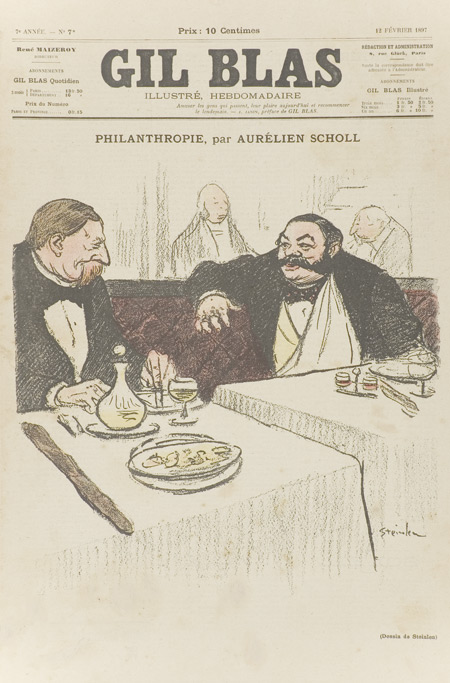 Philanthropie, a short story by French writer, journalist and playwright Aurélien Scholl (1833-1902). Illustration by Théophile Alexandre Steinlen (1859-1923) in Le Gil Blas illustré, 12 February 1897.